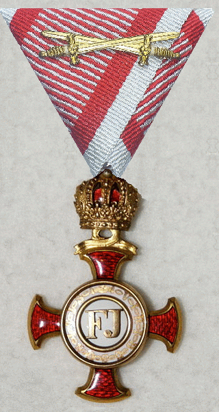 Civil Merit Cross in Gold with Crown (Austria-Hungary) with War Ribbon and Swords